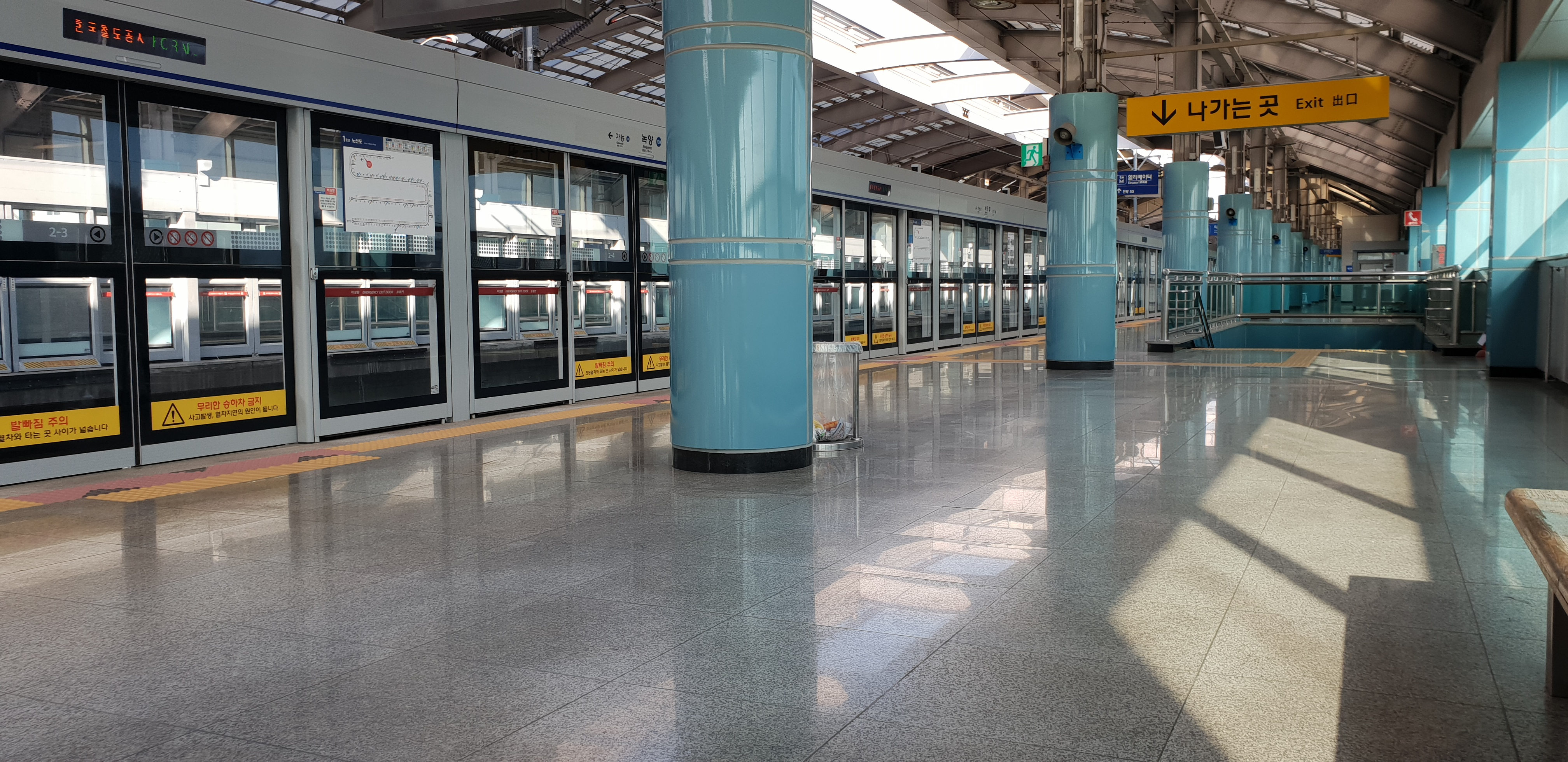 Seoul Metropolitan Subway Line 1 Nogyang Station Platform 2